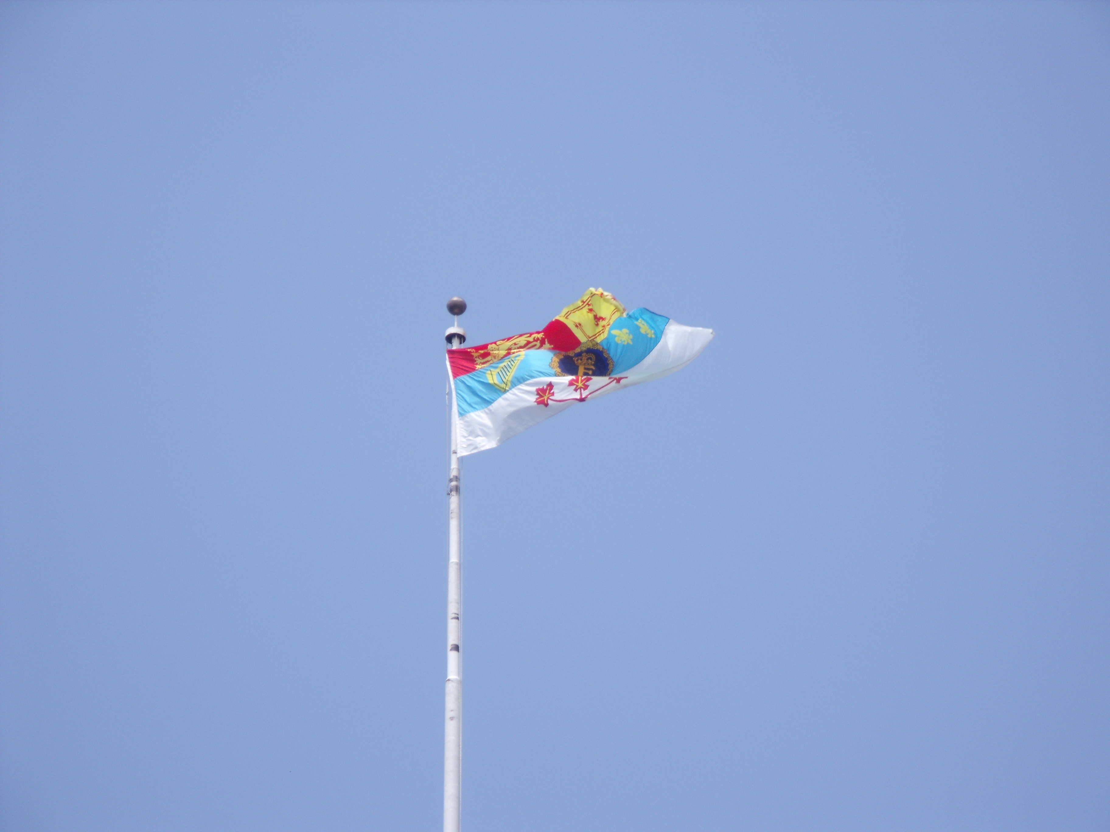 The Queen's Personal Canadian Flag flies over the Ontario Legislative Building